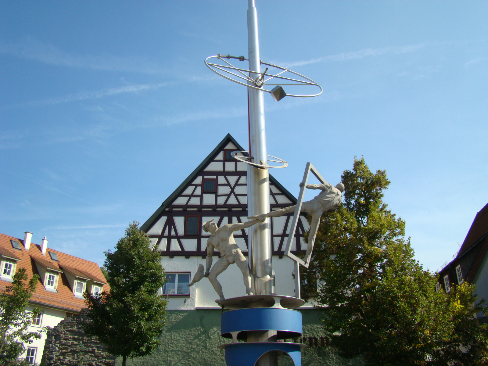 This is a work by Peter Lenk and Hellmut Ehrath called "Pendelschlag 2000 Jerg Ratgeb, Köche und ein Mops". It is located in Herrenberg, Germany.